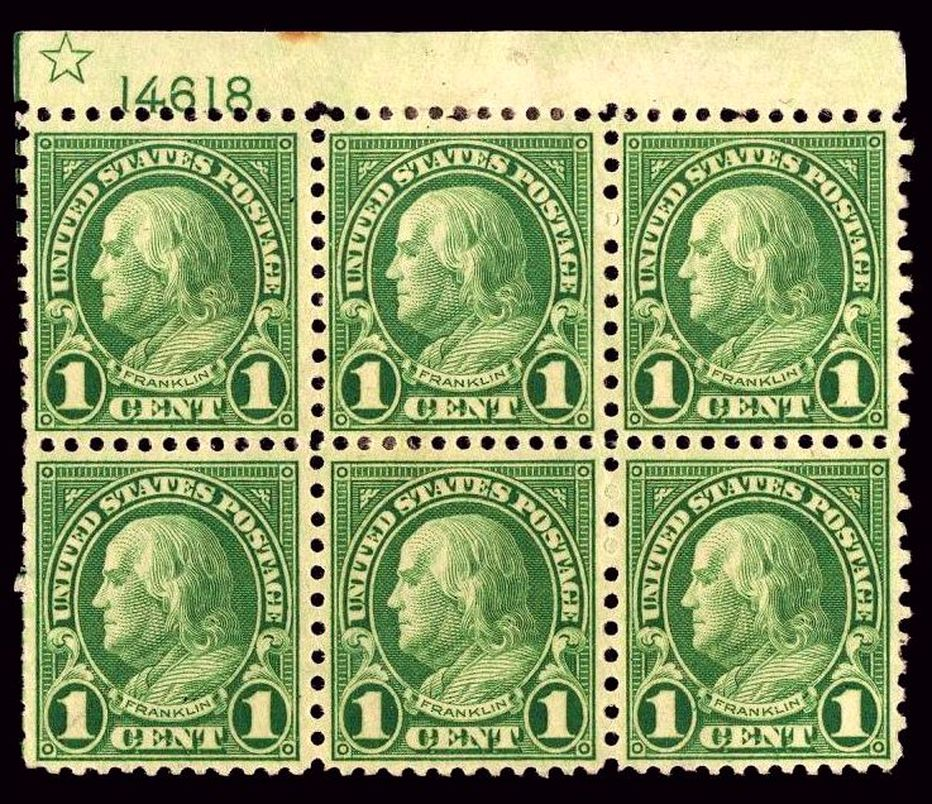 Coil waste: Top margin block of 6 stamps; plate number 14618; star